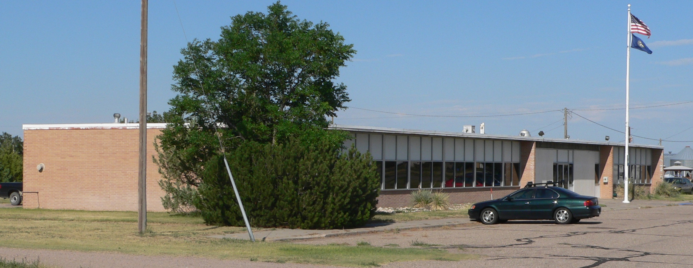 Banner County courthouse, on the northeast corner of State Street and Pennsylvania Avenue in Harrisburg, Nebraska; seen from the southwest. A plaque inside the building (photo uploaded) gives the construction date as 1957.